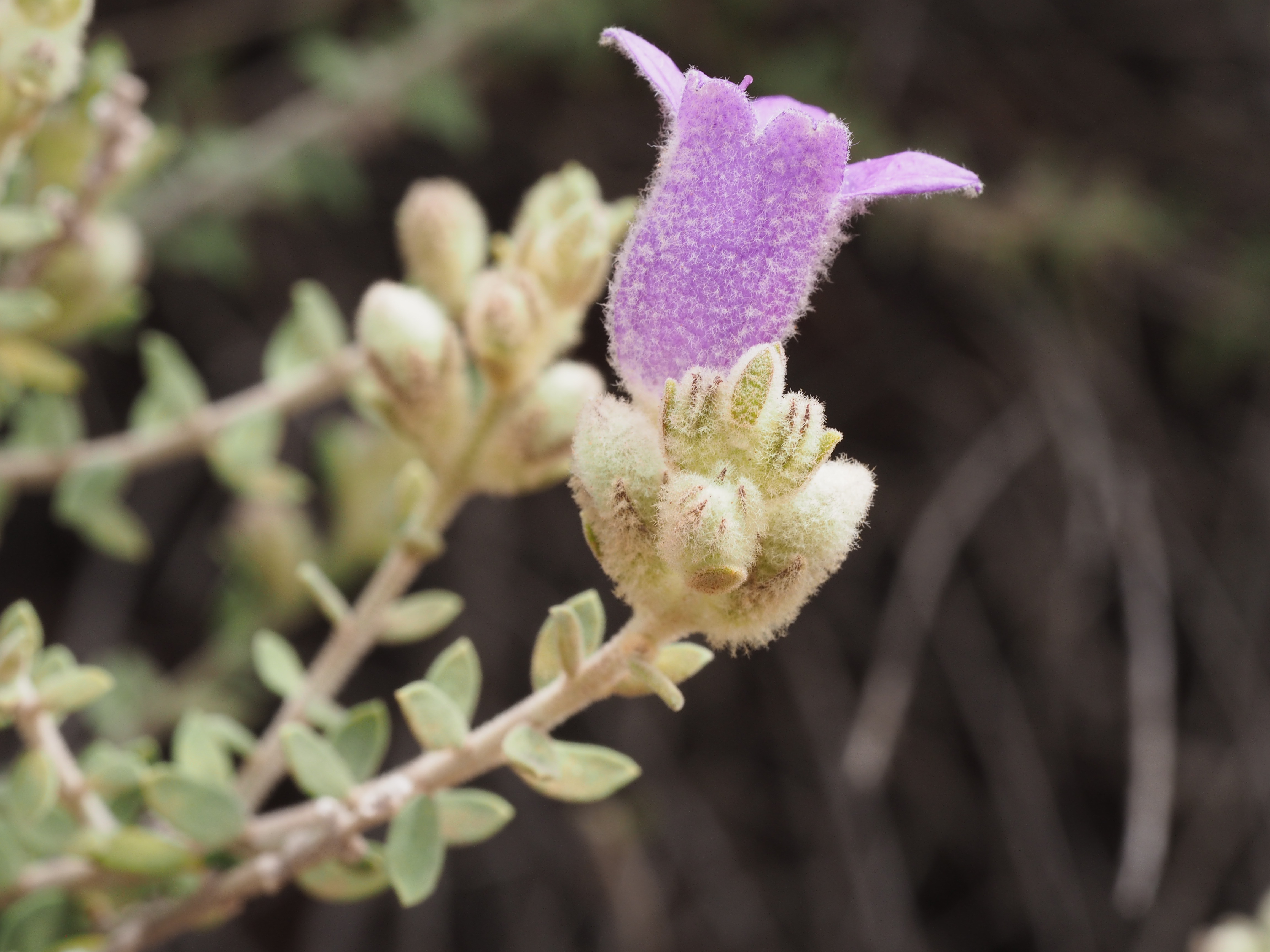 Eremophila malacoides growing 50km west of Wiluna